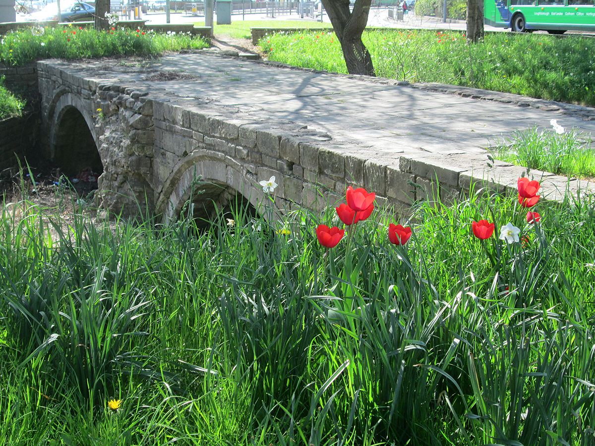 Old Trent Bridge, West Bridgford